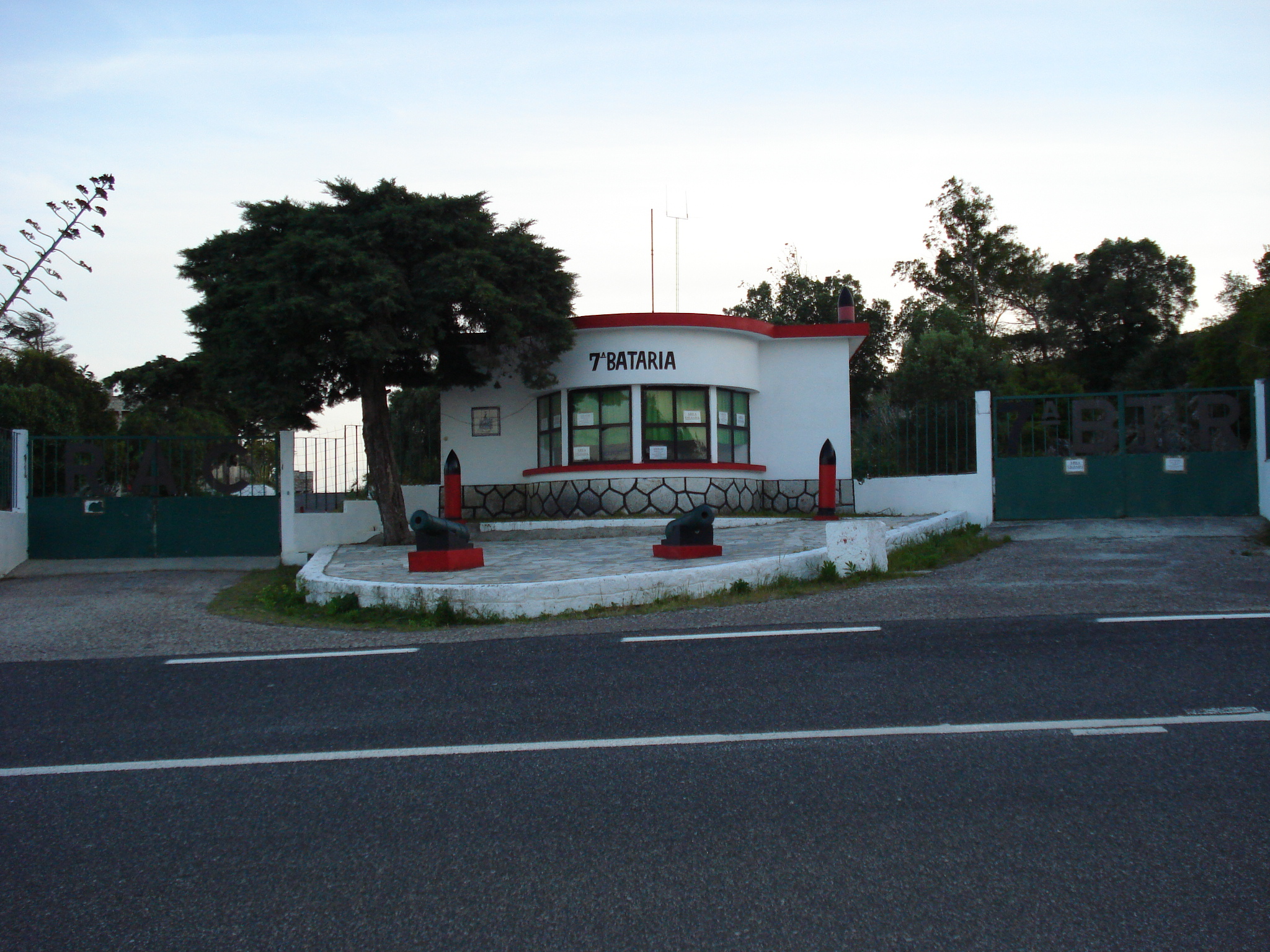 7ª Bataria do Outão do Regimento de Artilharia de Costa, Setúbal